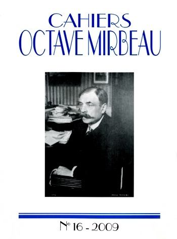 Cover Page of 2009 Installment of "Cahiers Octave Mirbeau" by Société Octave Mirbeau.